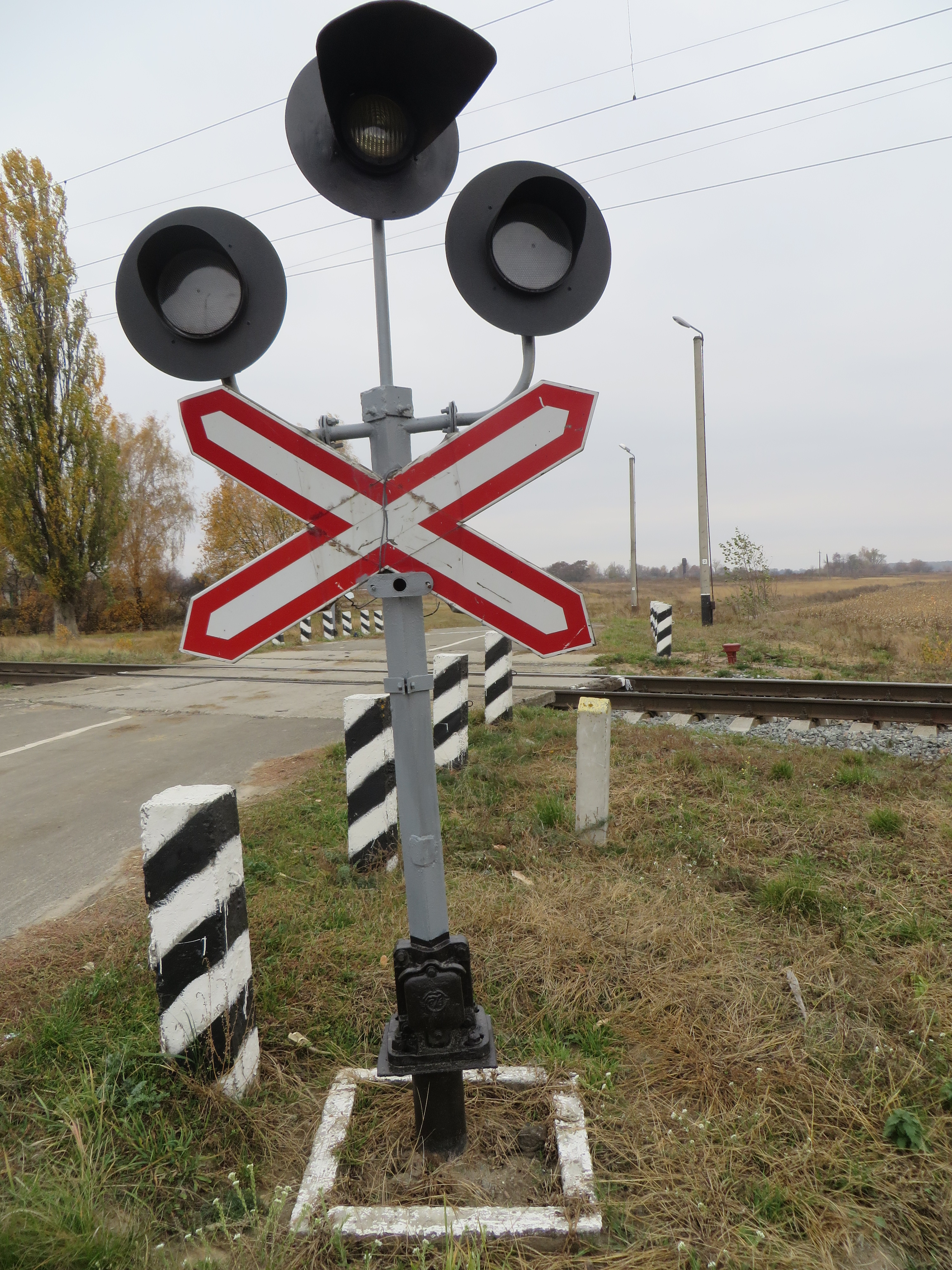 Traffic lights on railway near v. Drimailivka, Kulykivka Raion, Chernihiv Oblast, Ukraine